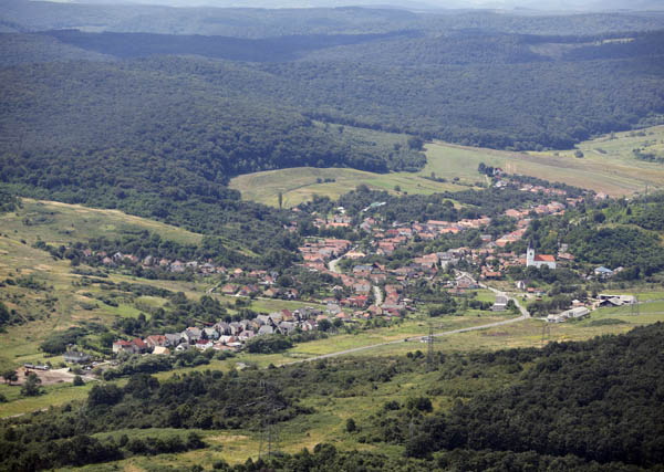 Alacska, Hungary, Borsod-Abaúj-Zemplén County, aerial photography